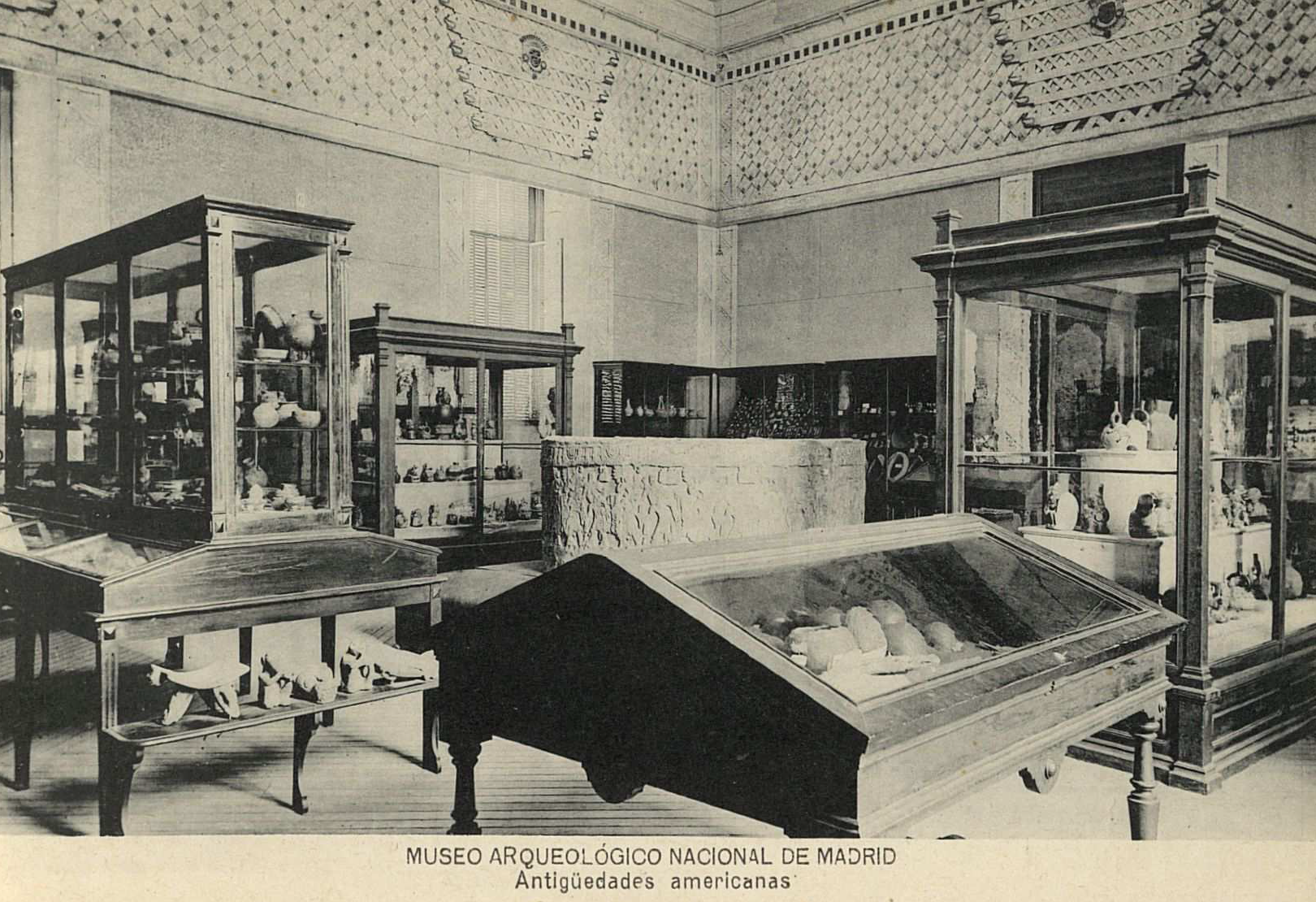 National Archaeological Museum of Madrid. Antiquities from the Americas